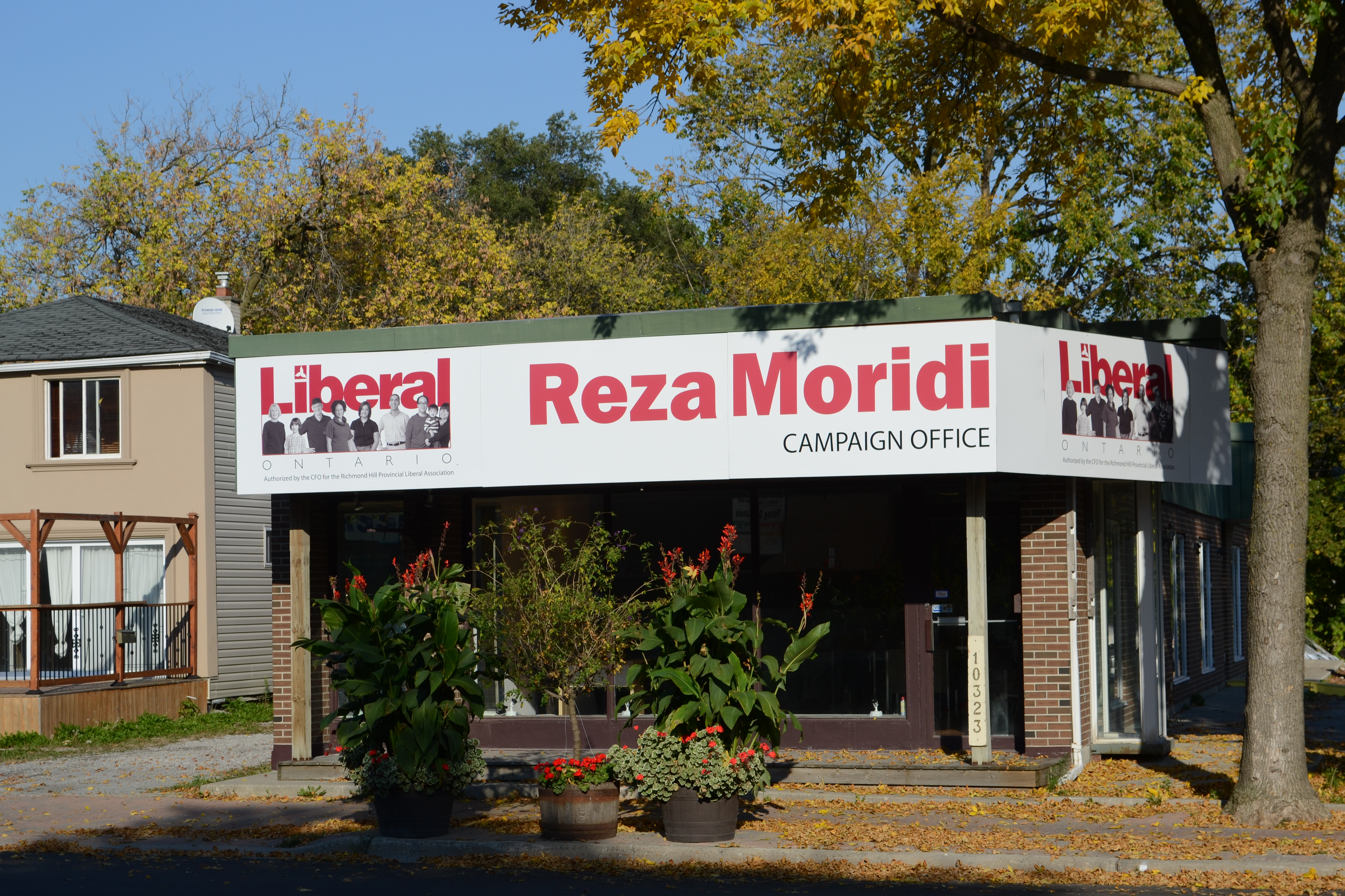 Reza Moridi Campaign Office, 10323 Yonge Street